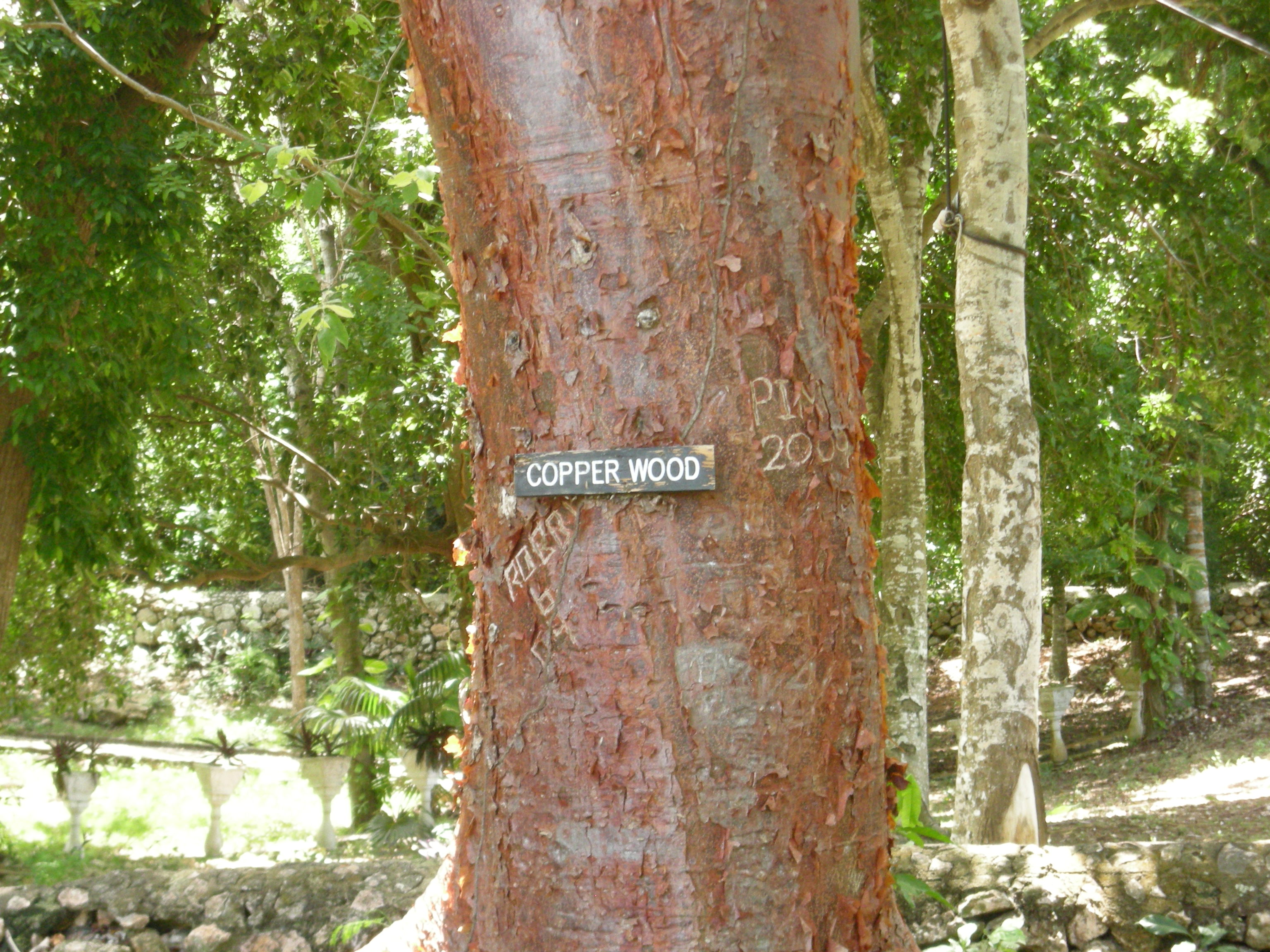 Copperwood Tree in Jamaica. Also known as Bursera simaruba and gumbo-limbo.